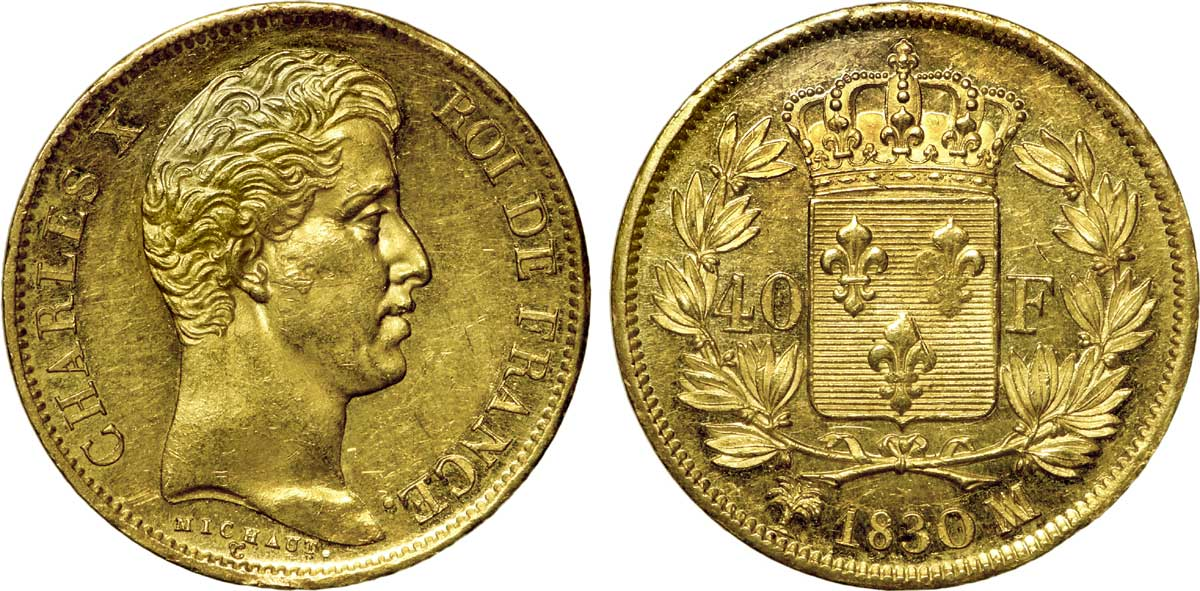 40 francs or Charles X, 1830 Marseille. Exemplaire limité à 1020 exemplaires